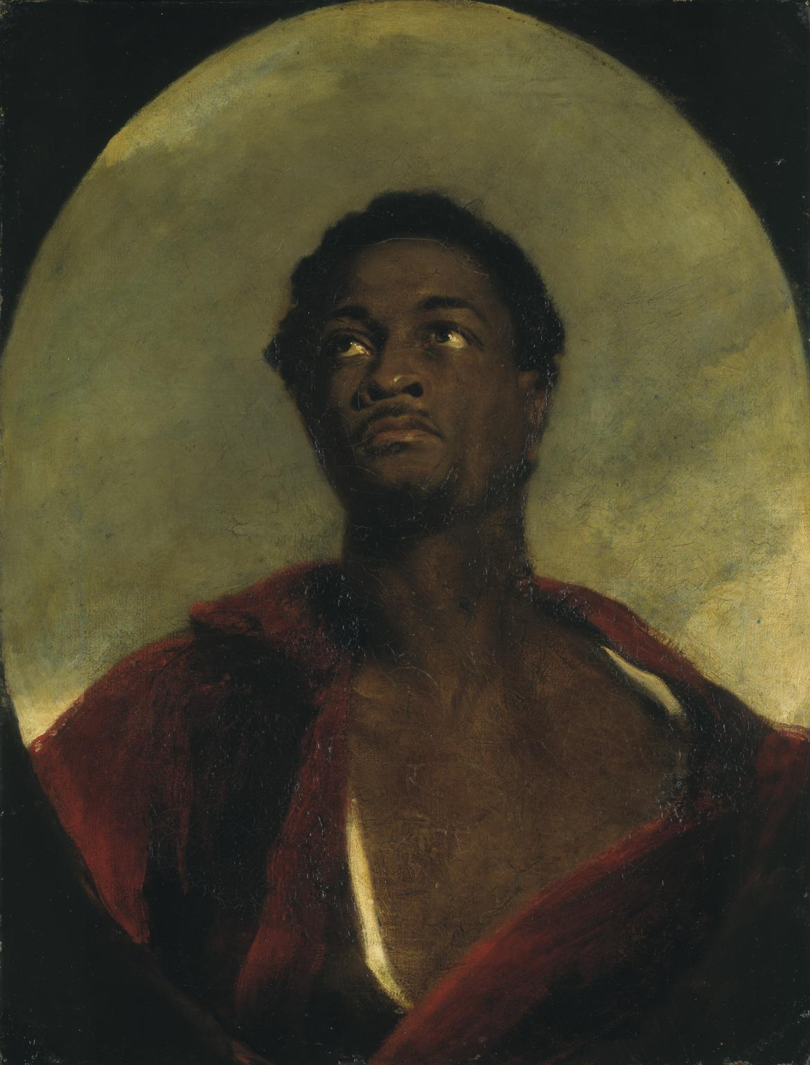 «Head of a Man. (?Ira Frederick Aldridge)»